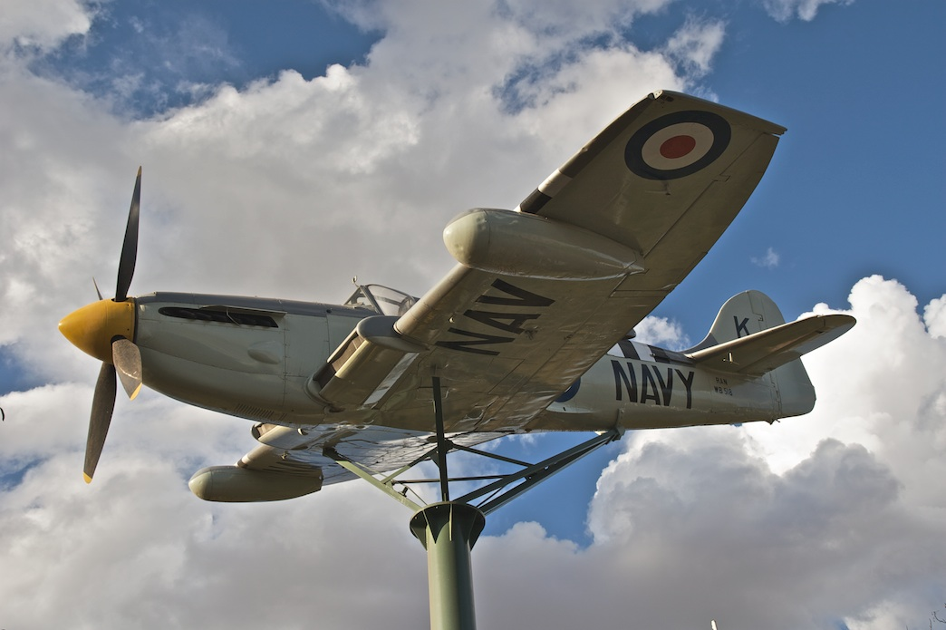 Fairey Firefly Historic Display